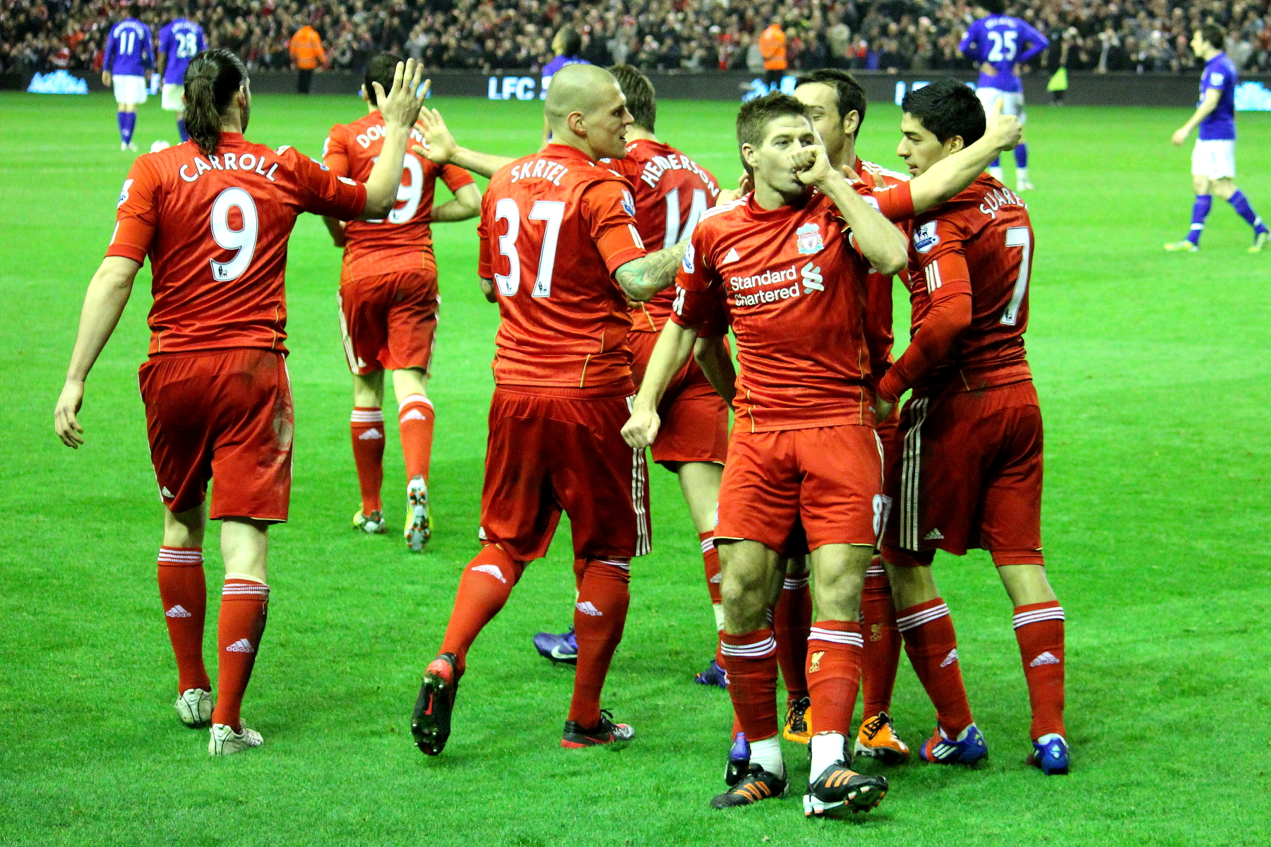 Steven Gerrard celebrating scoring a goal against Everton in 2012.